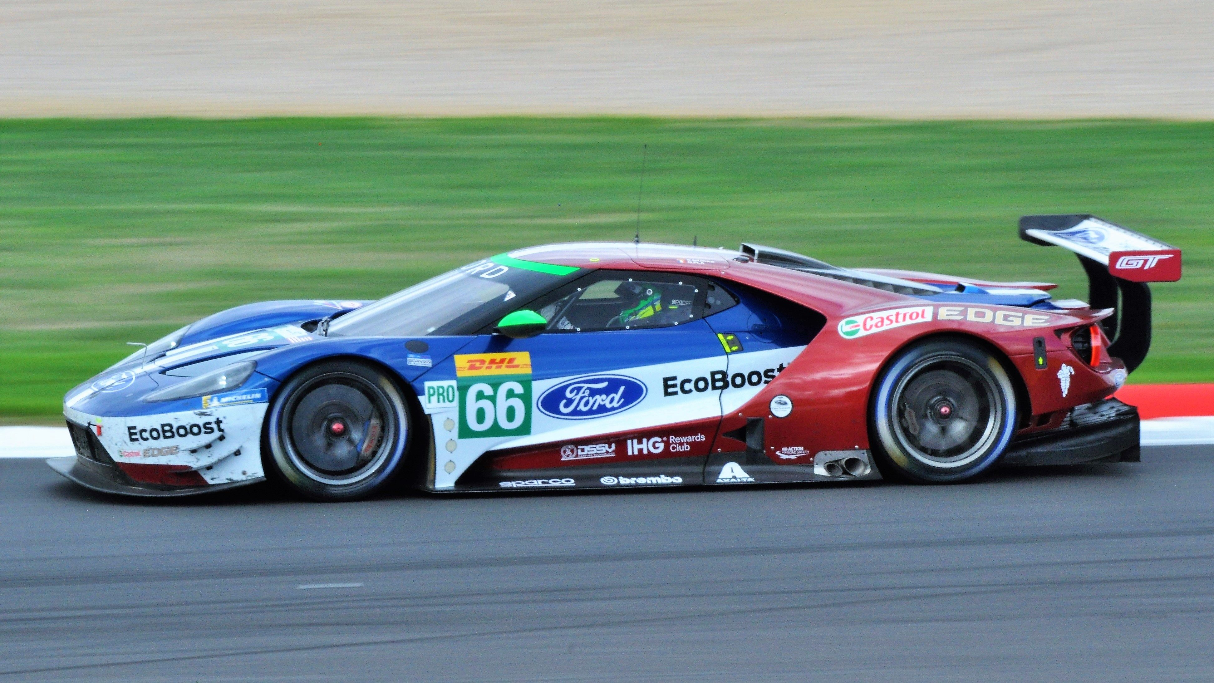 French driver Olivier Pla in the number 66 Chip Ganassi Team UK entry, at Club corner during the 2018 6 Hours of Silverstone race. Pla and his co-driver, German driver Stefan Mücke, finished sixth in the LMGTE Pro class.